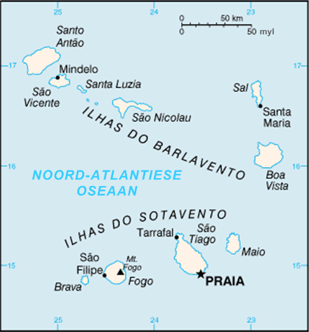 An Afrikaans map of Cape Verde.